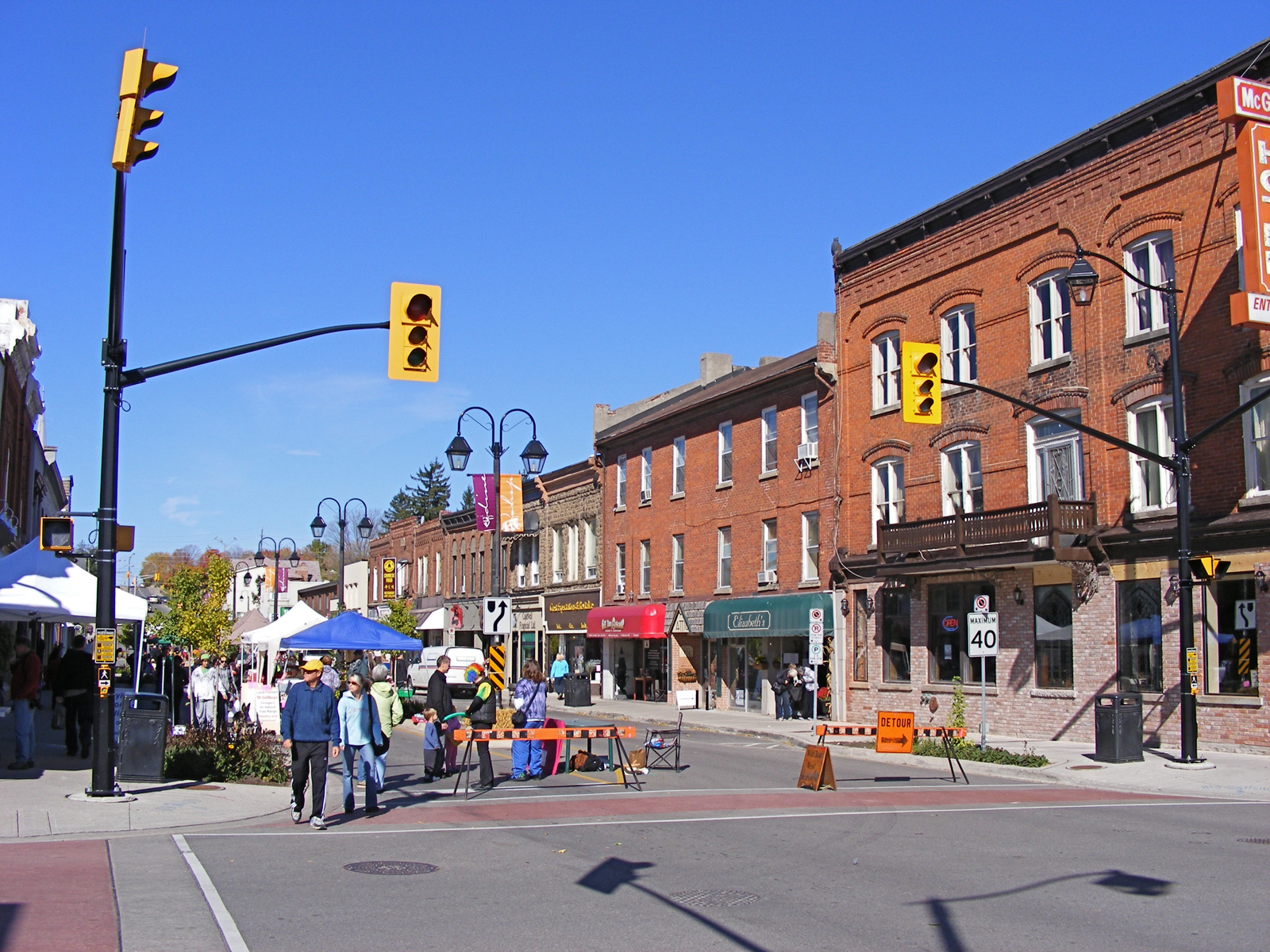 Main Street in Georgetown, Ontario (blocked to traffic for Farmers' Market).